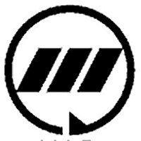 Kawajima Saitama chapter